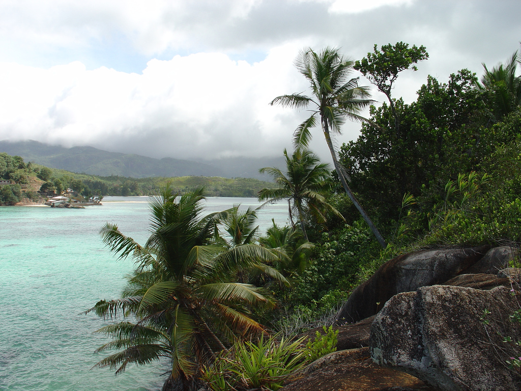 I was at Moyenne Island when I took this photo